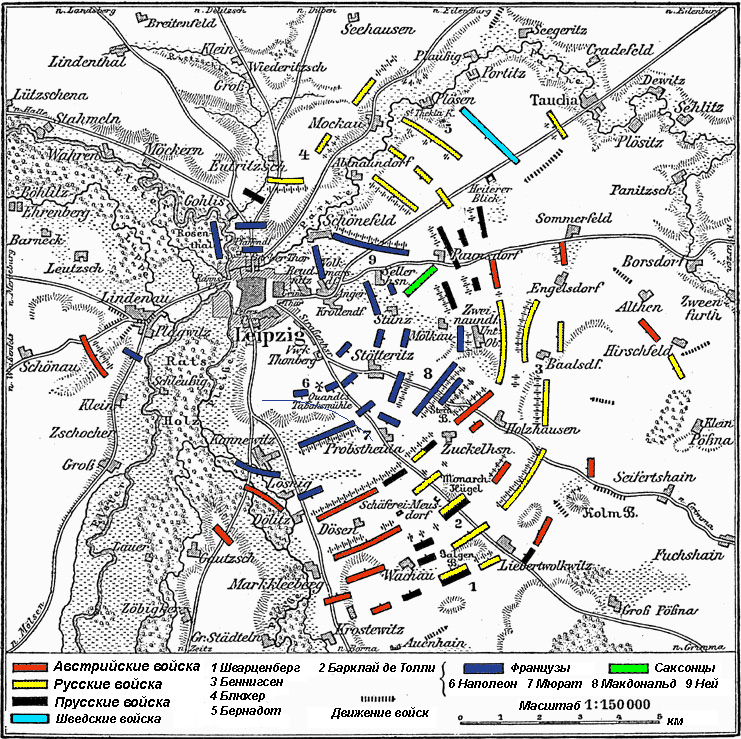 Historic map of the battle of the nations by Leipzig (18.10.1813). Russian colored version.